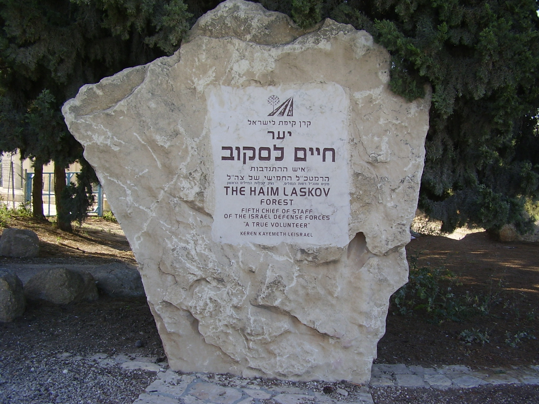 major general haim laskov forest in latrun, israel